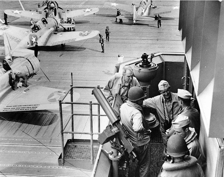 Scene on the port bridge wing of the U.S. Navy aircraft carrier USS Wasp (CV-7), during operations off Guadalcanal on 7 August 1942. Among those present are (from left to right, in the right center) Commander D.F. Smith (hatless); Captain Forrest P. Sherman, Commanding Officer (wearing helmet); Rear Admiral Leigh Noyes, Commander Task Group 61.1 (facing camera); and Lieutenant Commander Wallace M. Beakley, Commander Wasp Air Group, who is making his report to RAdm. Noyes. Note Douglas SBD-3 Dauntless scout bombers (one with a rather small national star painted on its fuselage) on the flight deck and .30 caliber machine gun mounted on the bridge bulwark.